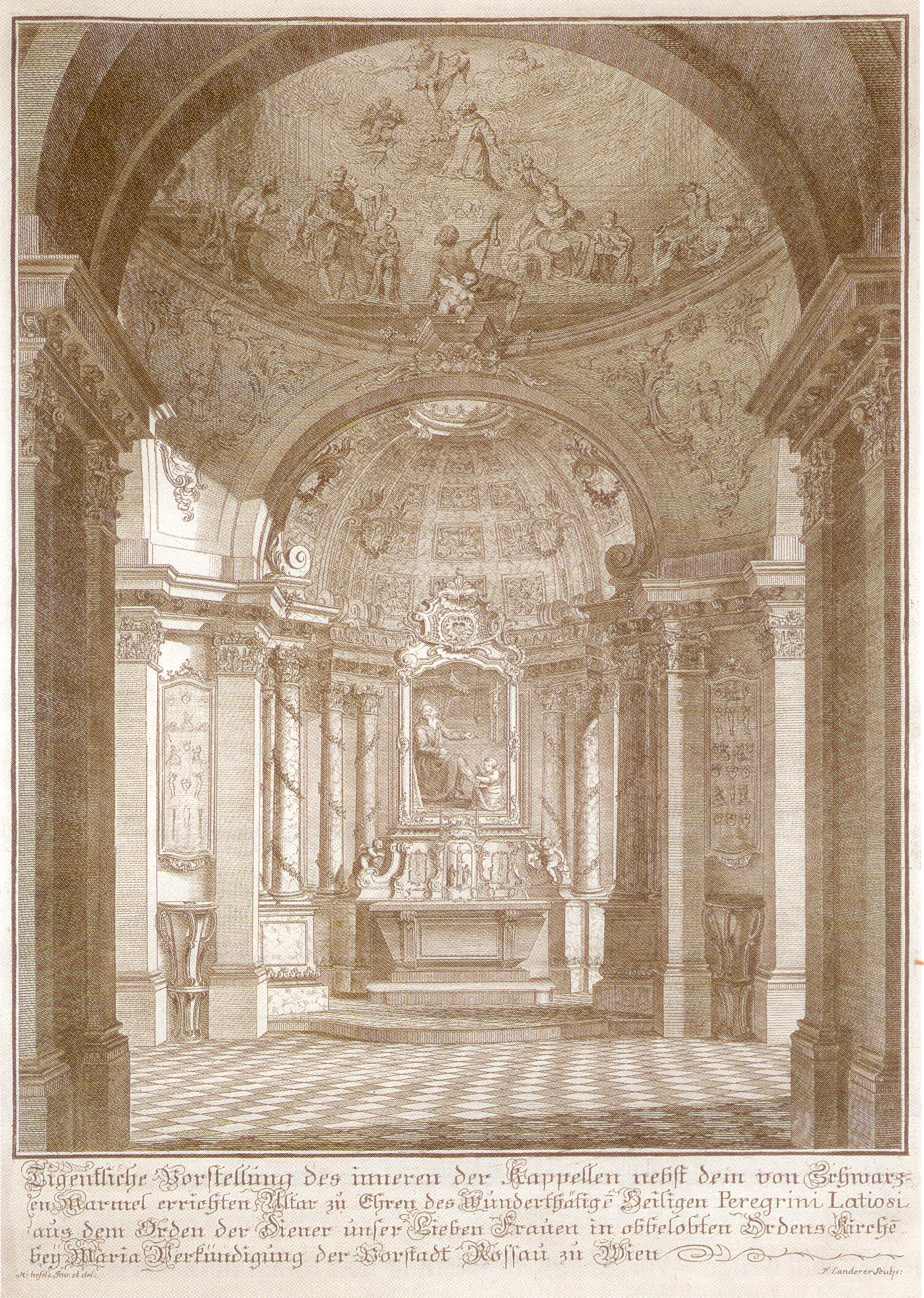 Scan of an copper engraving (copperplate print) made by Landerer (18th century) of the interior of the Peregrine chapel (Peregrini-Kapelle) in Vienna, Austria, nearby the Servitenkirche (Pfarre Rossau).